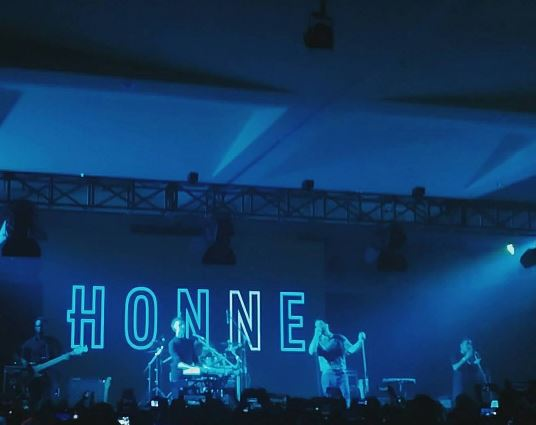 Honne performing at the 2017 Music Gallery in Jakarta, Indonesia.